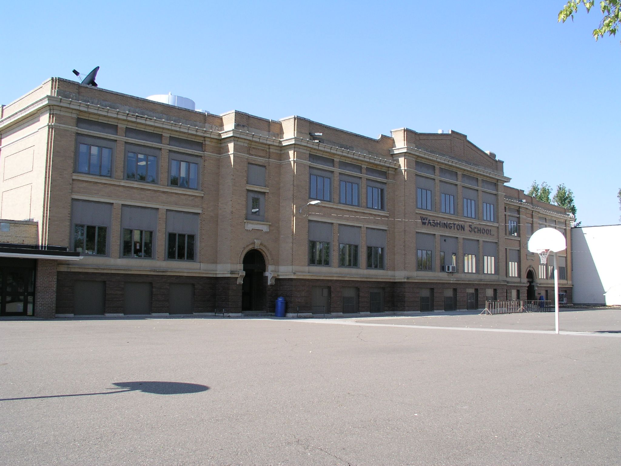 East side of the Washington Middle School in Miles City, Montana, USA.